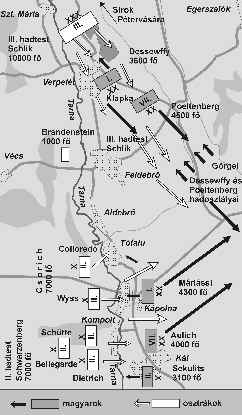 Battle of Káplona in the Hungarian Revolution of 1848